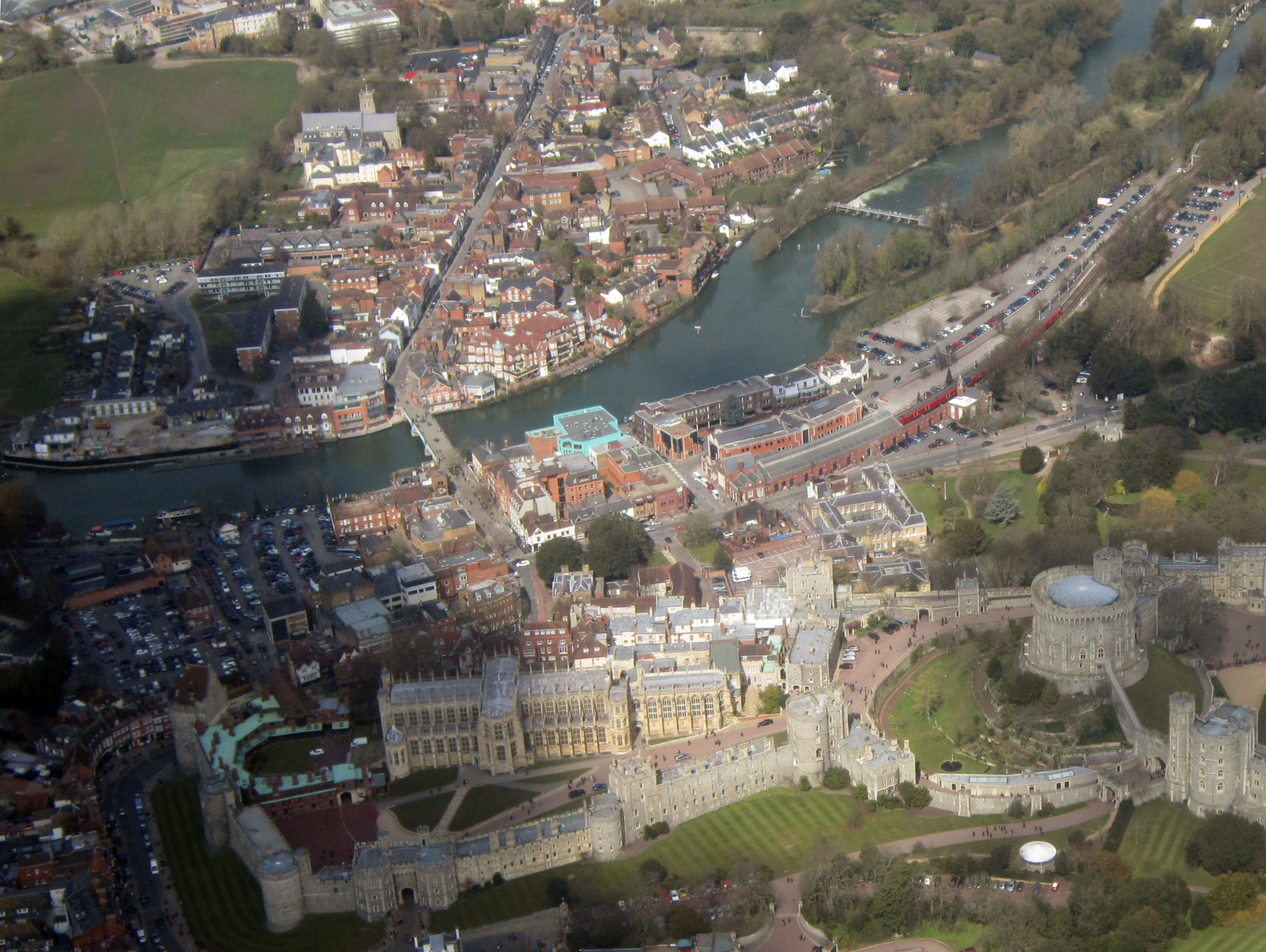 Eton and Castle: in the foreground, Windsor Castle; behind it, Windsor & Eton Riverside railway station; further back, Windsor Bridge over River Thames, and the town of Eton.